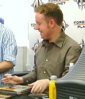 Mark Millar